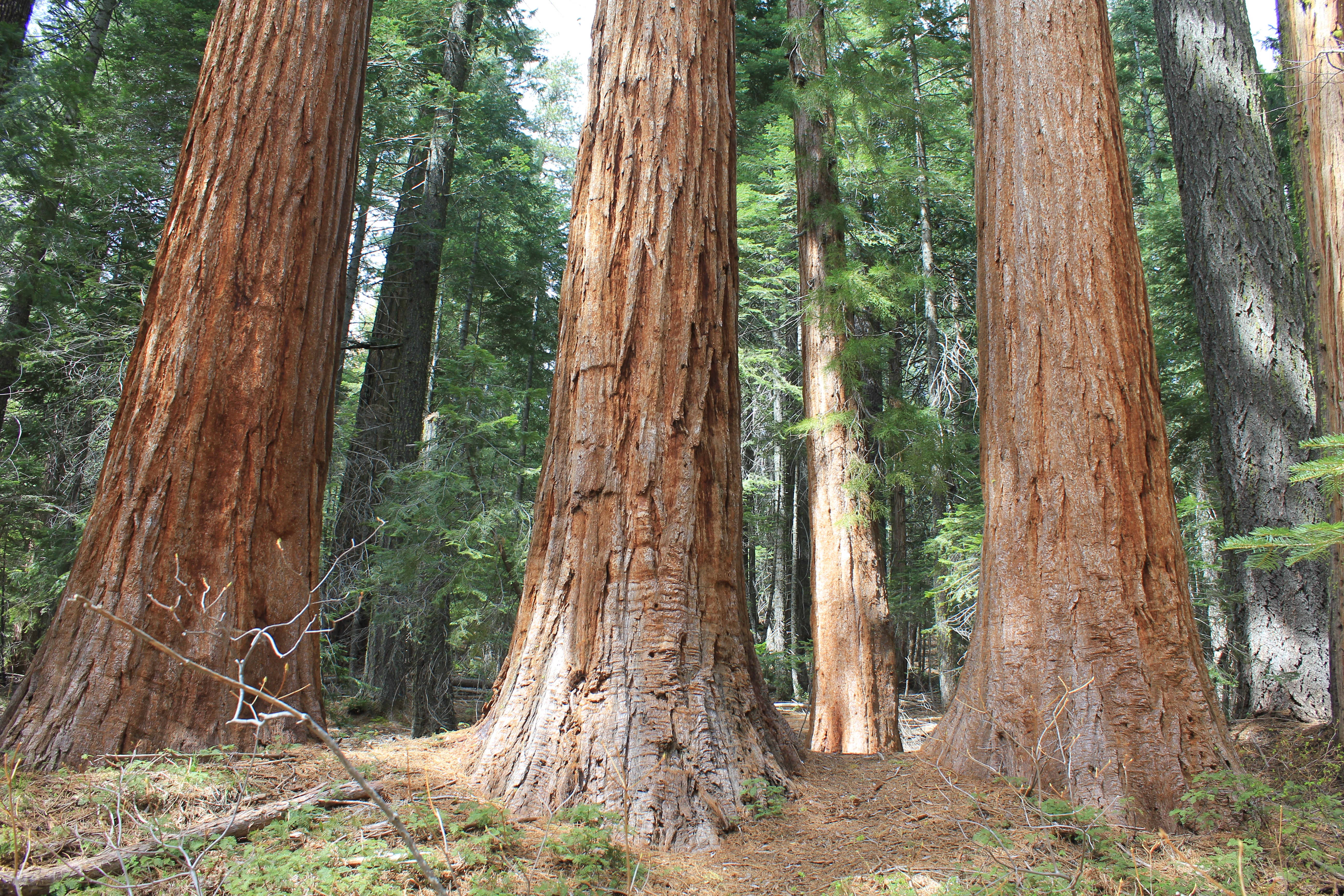 he northernmost stand of Seqouia gigantea Image ID: amer0244, NOAA's Small World Collection Location: California, Placer Grove Photo Date: 2012 May Photographer: Dr. John Cloud, Historian, NOAA Central Library